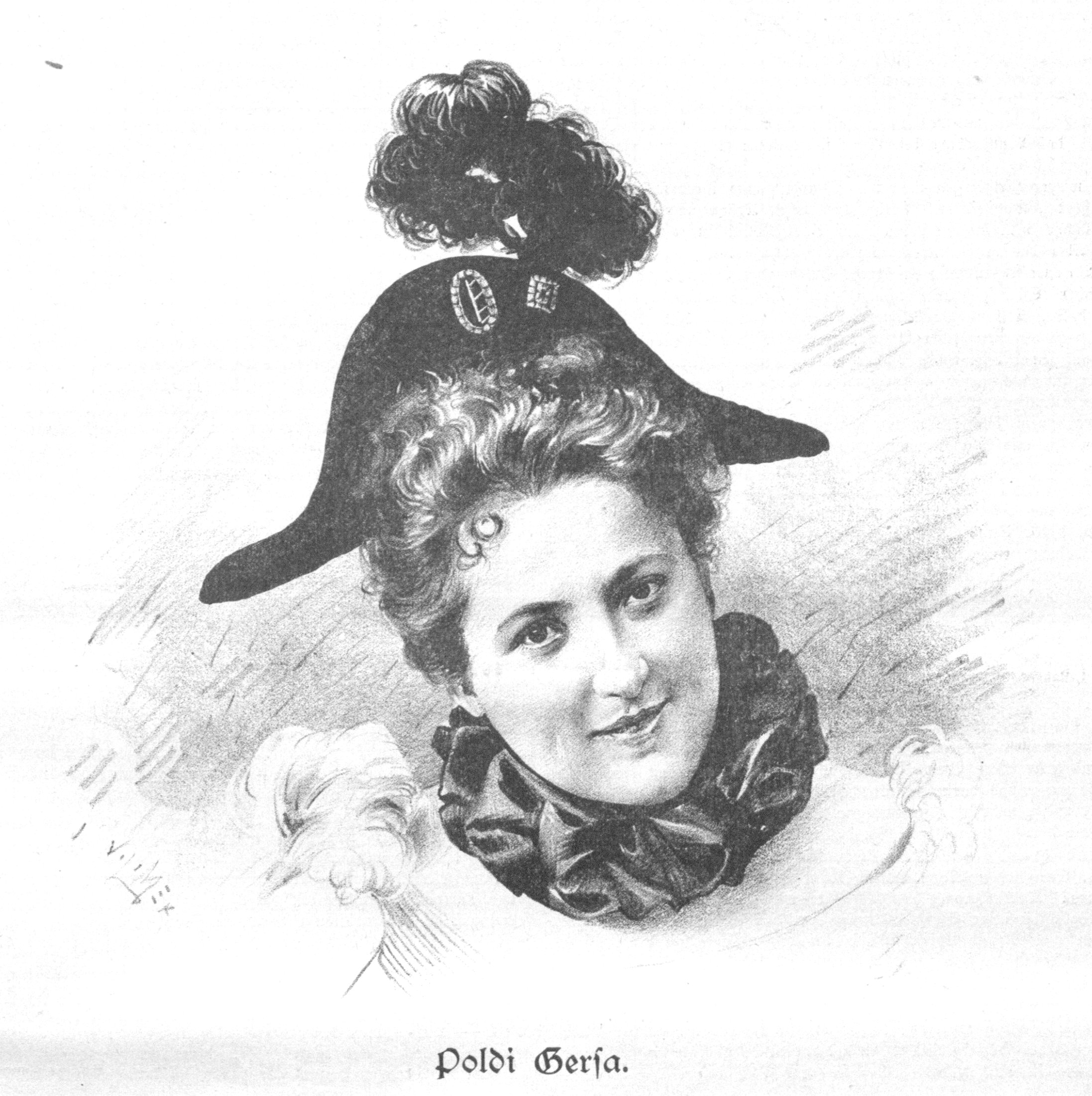 Portrait of Poldi Gersa (1874–1902), Austrian actress.